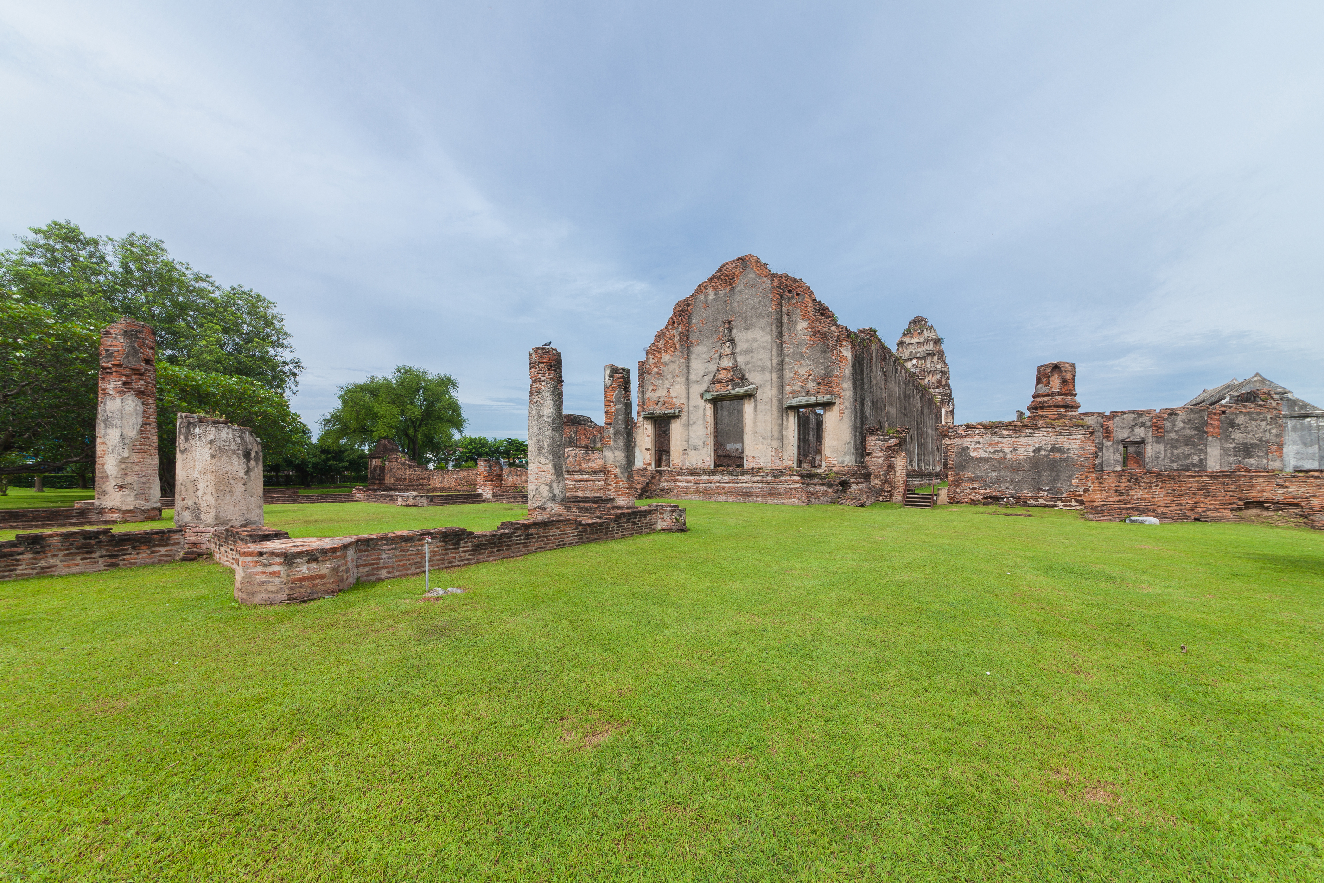 Wat Phra Si Rattana Mahathat, a buddhist Temple (Wat) in Lop Buri, Mueang Lop Buri district, Lop Buri Province, Thailand.